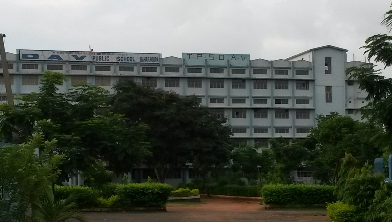 TPS DAV Public School,Baharagora